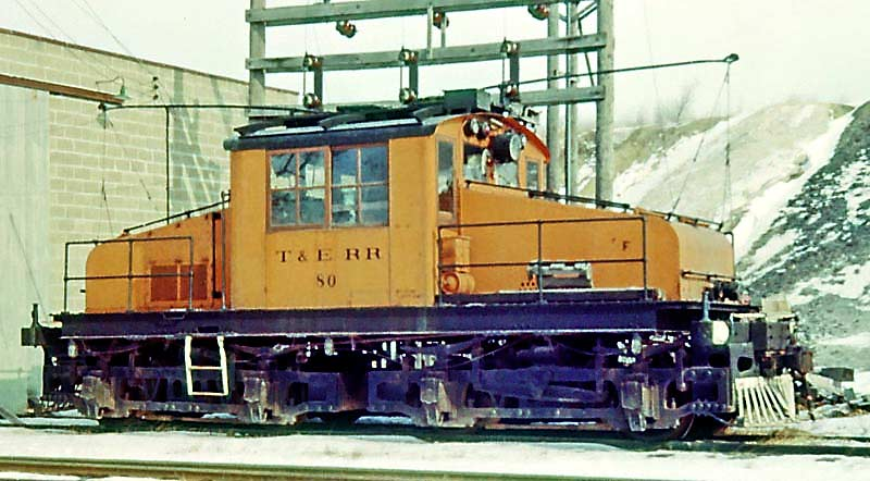 Scan of 35mm slide taken by Alexander J. Campbell in January, 1958.